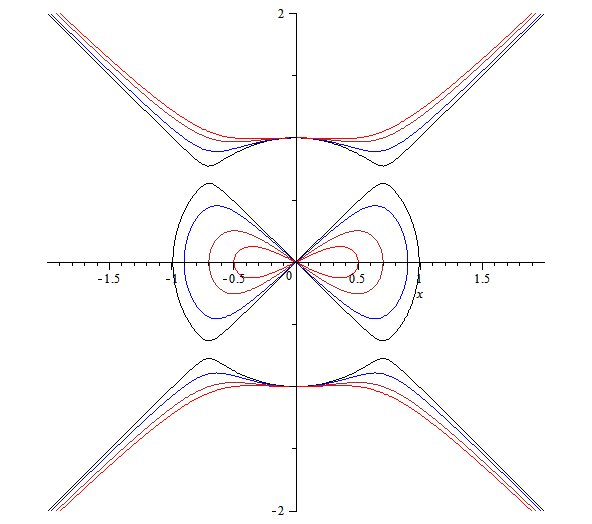 Devil' curve for a = 1, b = 0.98, 0.90 0.70 and 0.50